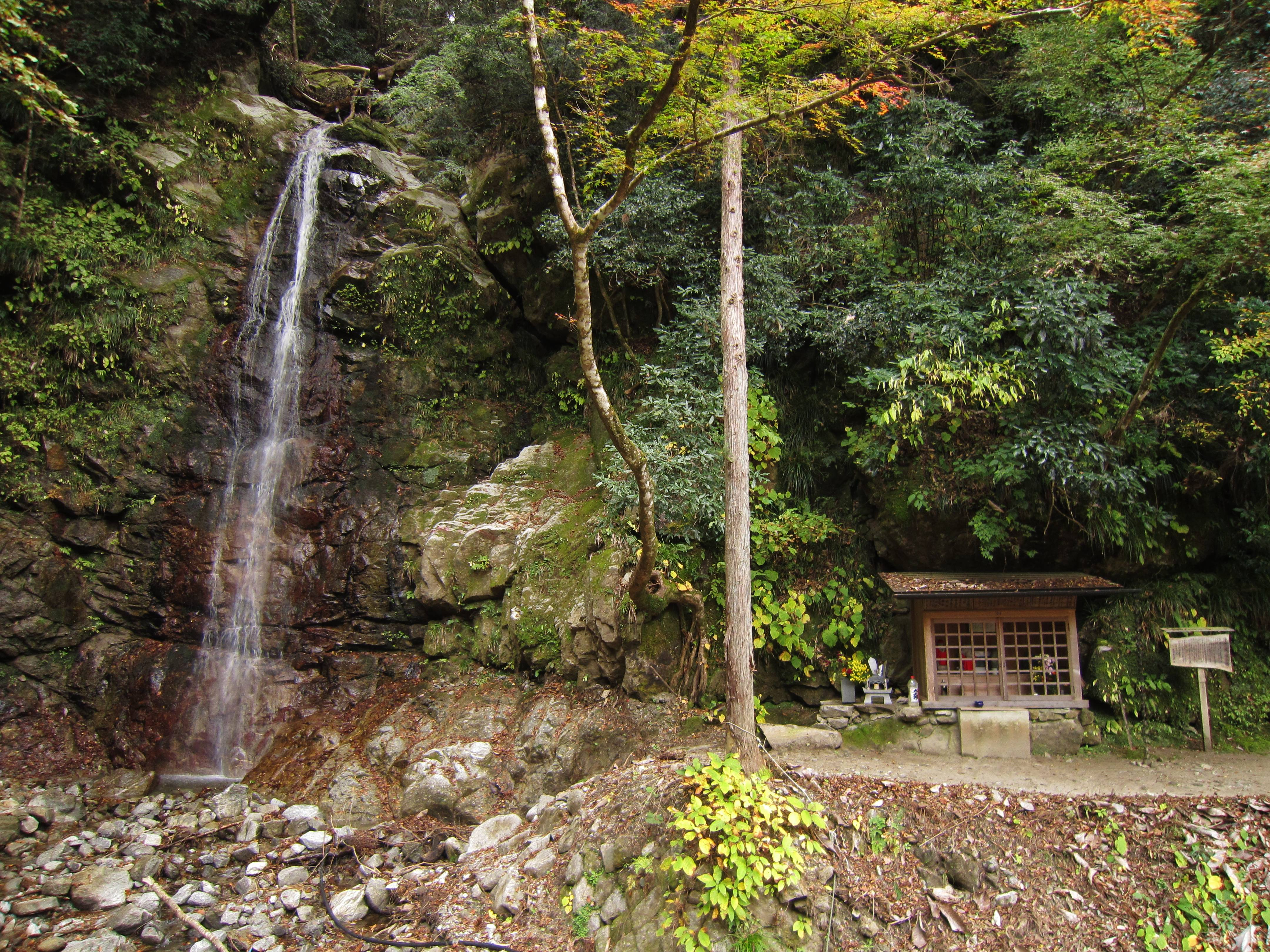 Shōjinnotaki Waterfall and Hokora.